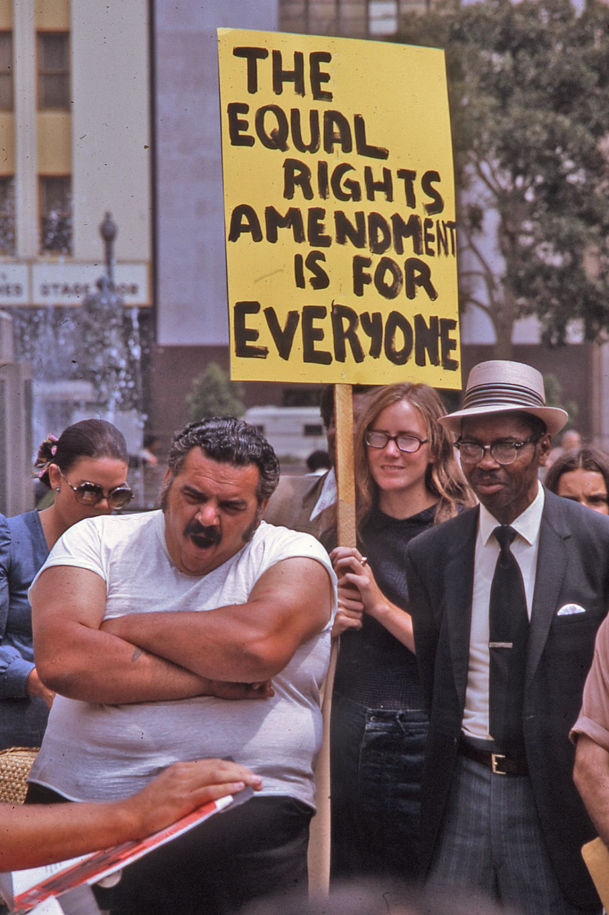 A woman in a Los Angeles, California, crowd holds a sign reading THE EQUAL RIGHTS AMENDMENT IS FOR EVERYONE while two men watch, one of them yawning. August 1972. Other information Photo by George Garrigues